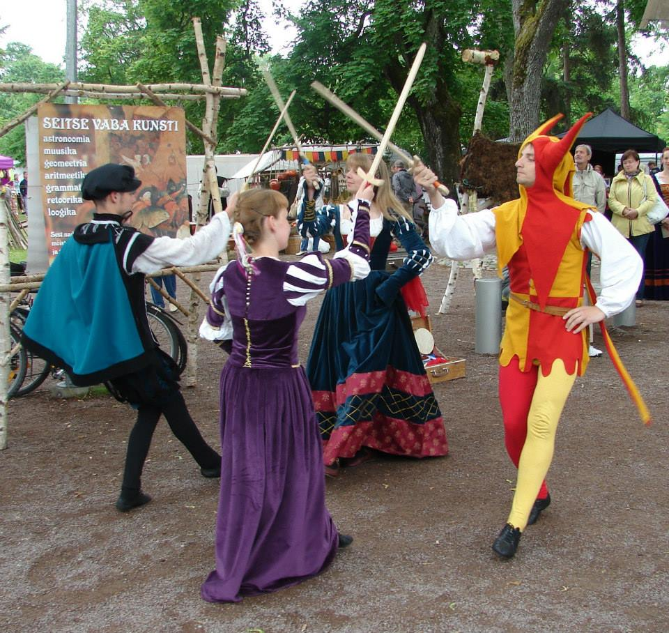 Medieval theatre "DiGrease's Buffoon Theatre" - Renaissance Dance Performance